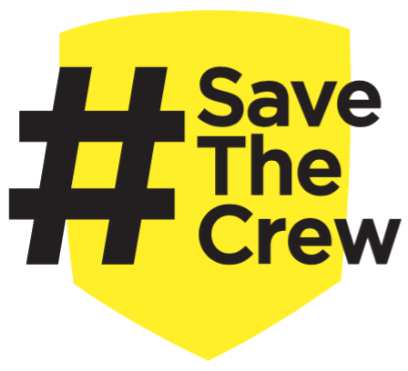 A logo for Save The Crew, a soccer supporters group that opposed Columbus Crew SC's plans to relocate from Columbus, Ohio to Austin, Texas.